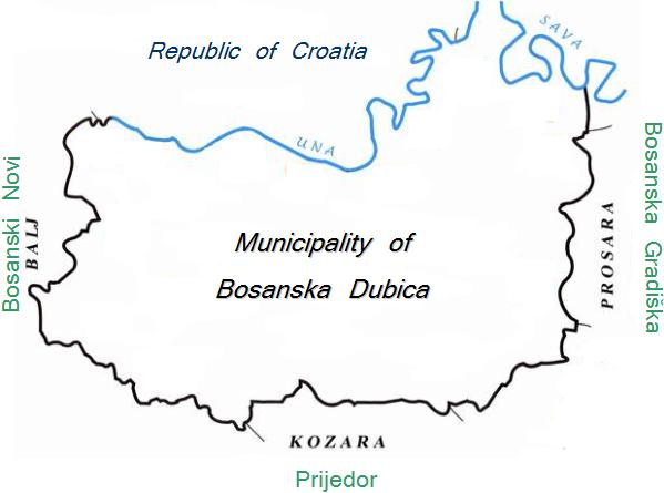 Map of Bosanska Dubica.